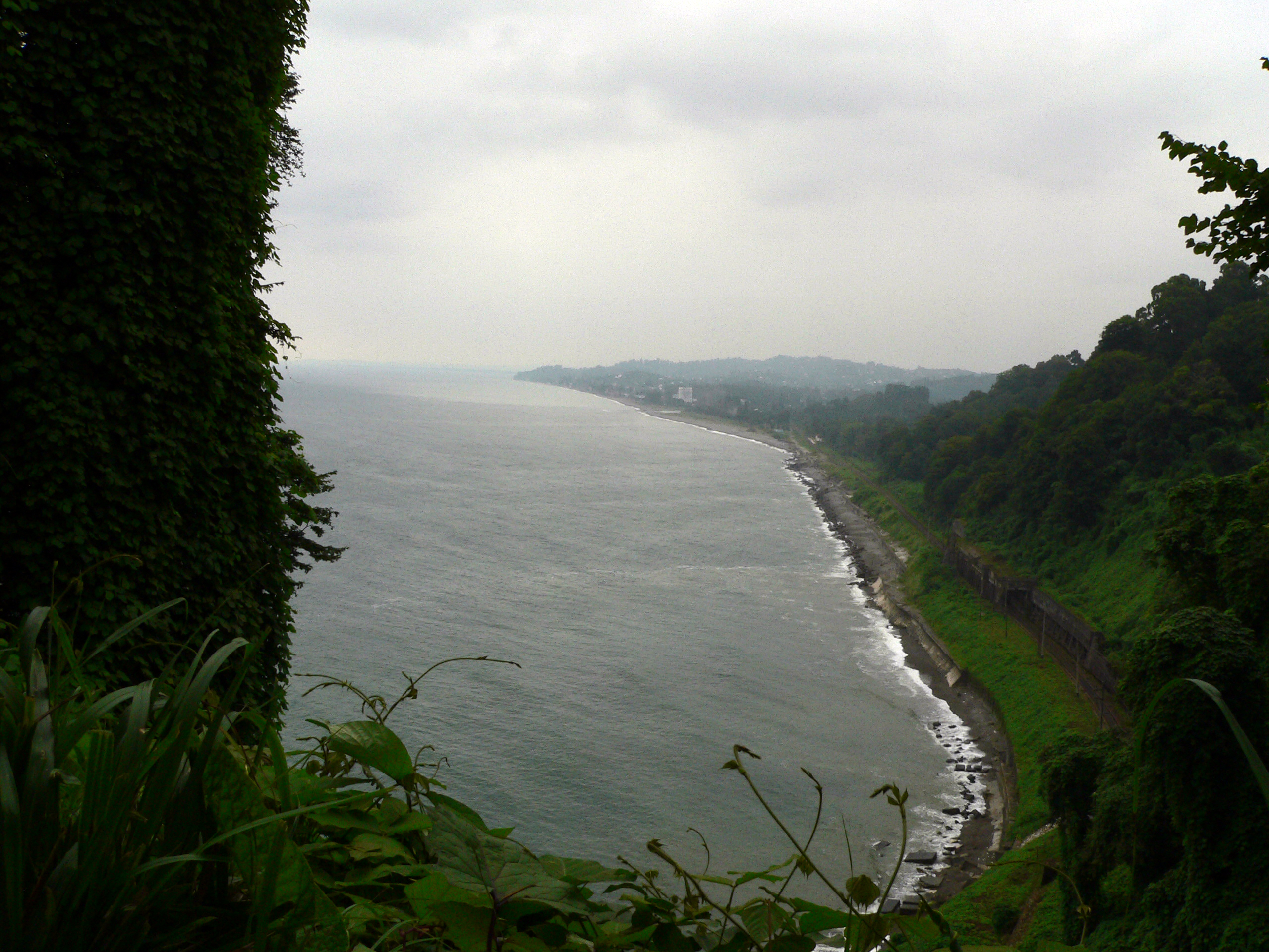 Seashore from Botanic Garden of Batumi